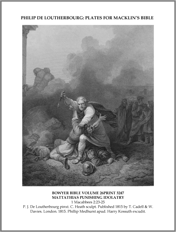 An engraved plate in the Macklin Bible (Cadell & Davies edition of the Apocrypha) after a specially-commissioned painting by Philippe De Loutherbourg. Photographed from the Bowyer bible, Bolton, England. 26.3247. Mattathias Punishing Idolatry. Mattathias with dagger raised to kill the Jew in his arms, standing over another body; smoking ruins including torso of a statue at left and a crowd of onlookers behind at right (1 Macabbees 2:23-25). 1815. Inscriptions: Lettered below image with title, text reference, production detail: "P. J. De Loutherbourg Pinxt.", "C. Heath Sculpt." and publication line: "London, Published June 1st. 1815, by T. Cadell & W. Davies Strand". Print made by Charles Heath. Dimensions: Height: 480 millimetres; width: 384 millimetres.